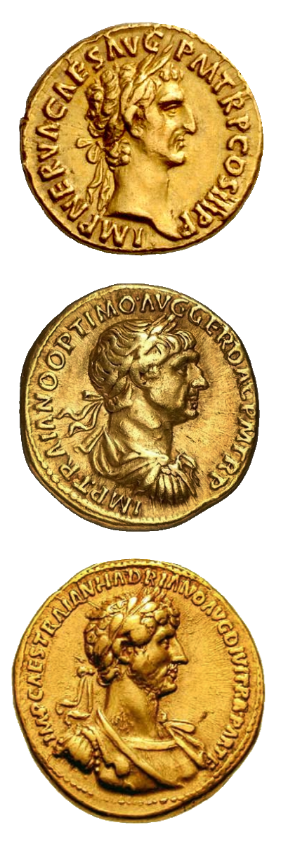 Derivative works of this file: Nerva Aureus Concordia.png Traianus Aureus 90010149.jpg Hadrian aureus.jpg